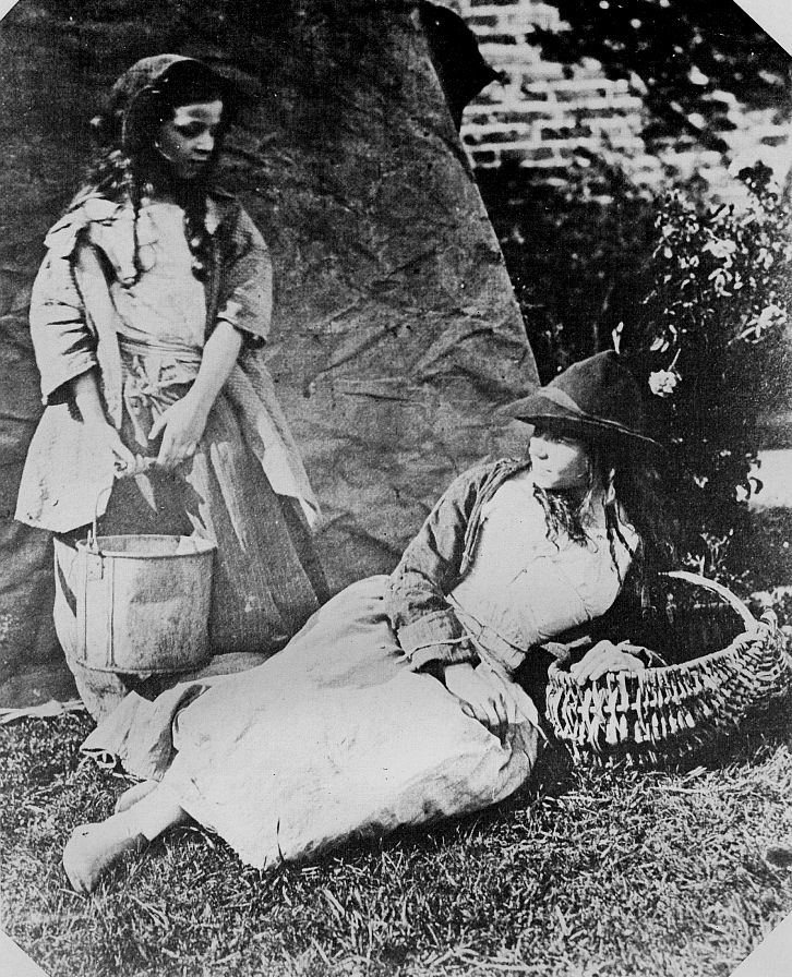 figure study of gypsies in Barnes Common (outer London) in the mid-19th century